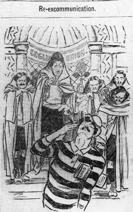 Re-excommunication: political cartoon by JM Staniforth. The Rugby Football Union (the governing body of rugby union in England) is represented as a religious cabal, dispelling Welsh rugby superstar Arthur 'Monkey' Gould from their 'church' over 'The Gould Affair'. Gould, wearing his Newport jersey appears unconcerned regarding their actions.